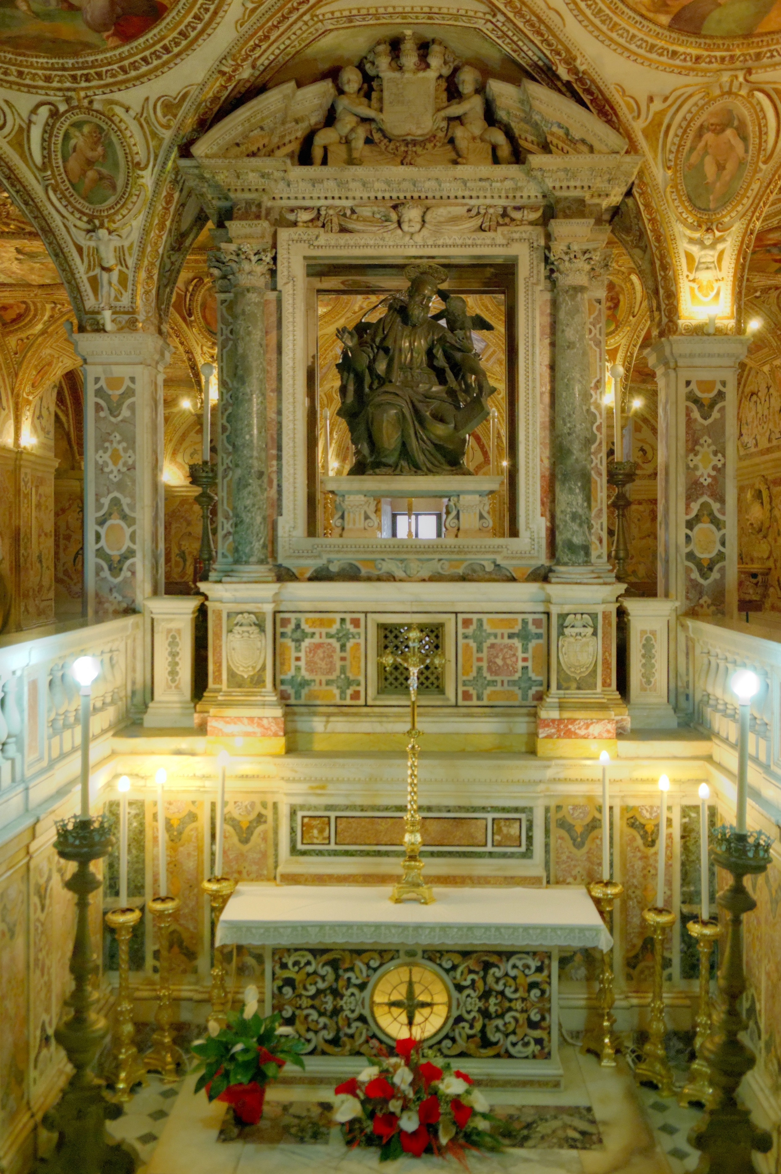 Salerno, San Matteo, Interior